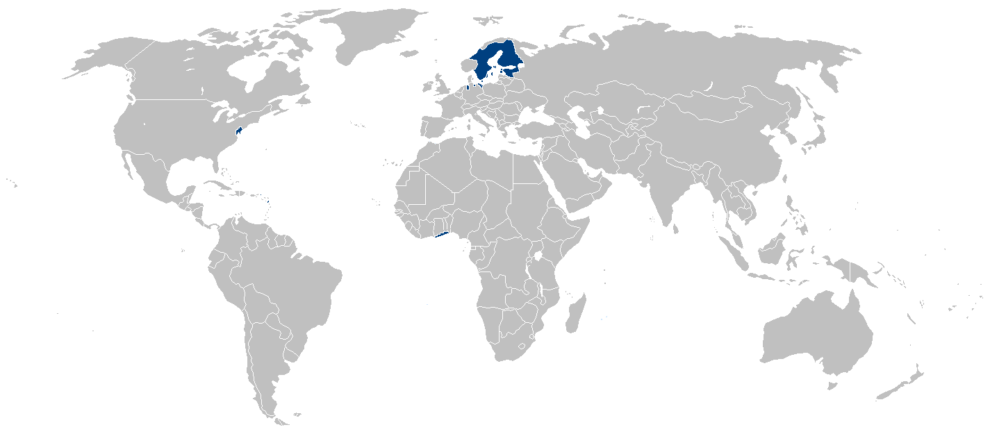 Swedish Empire around the world